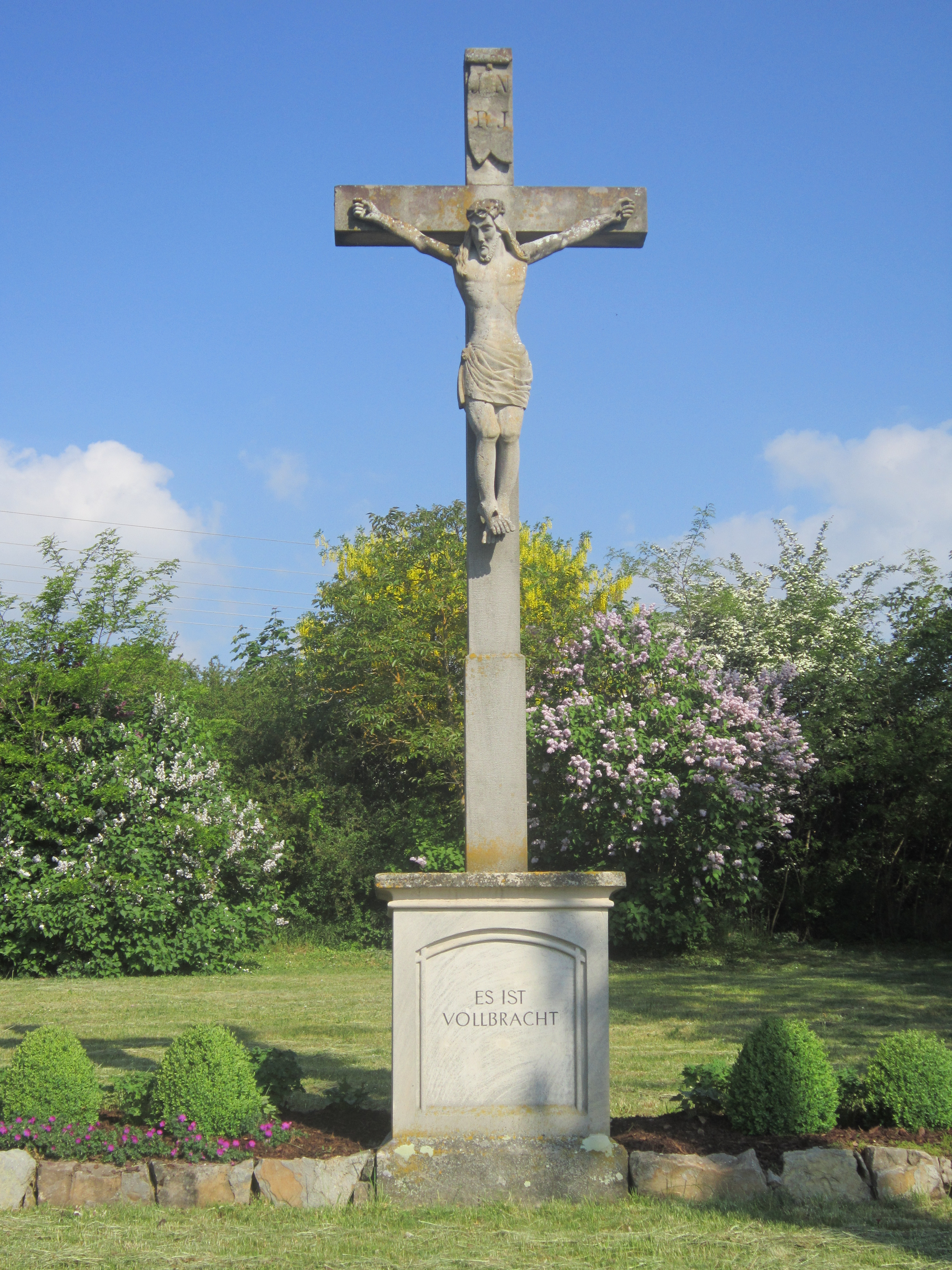 Wayside shrine, the "Vogelskreuz", in Reiterswiesen, a quarter of the German spa town of Bad Kissingen in Lower Franconia (Bavaria) (Address: Höhenstraße).